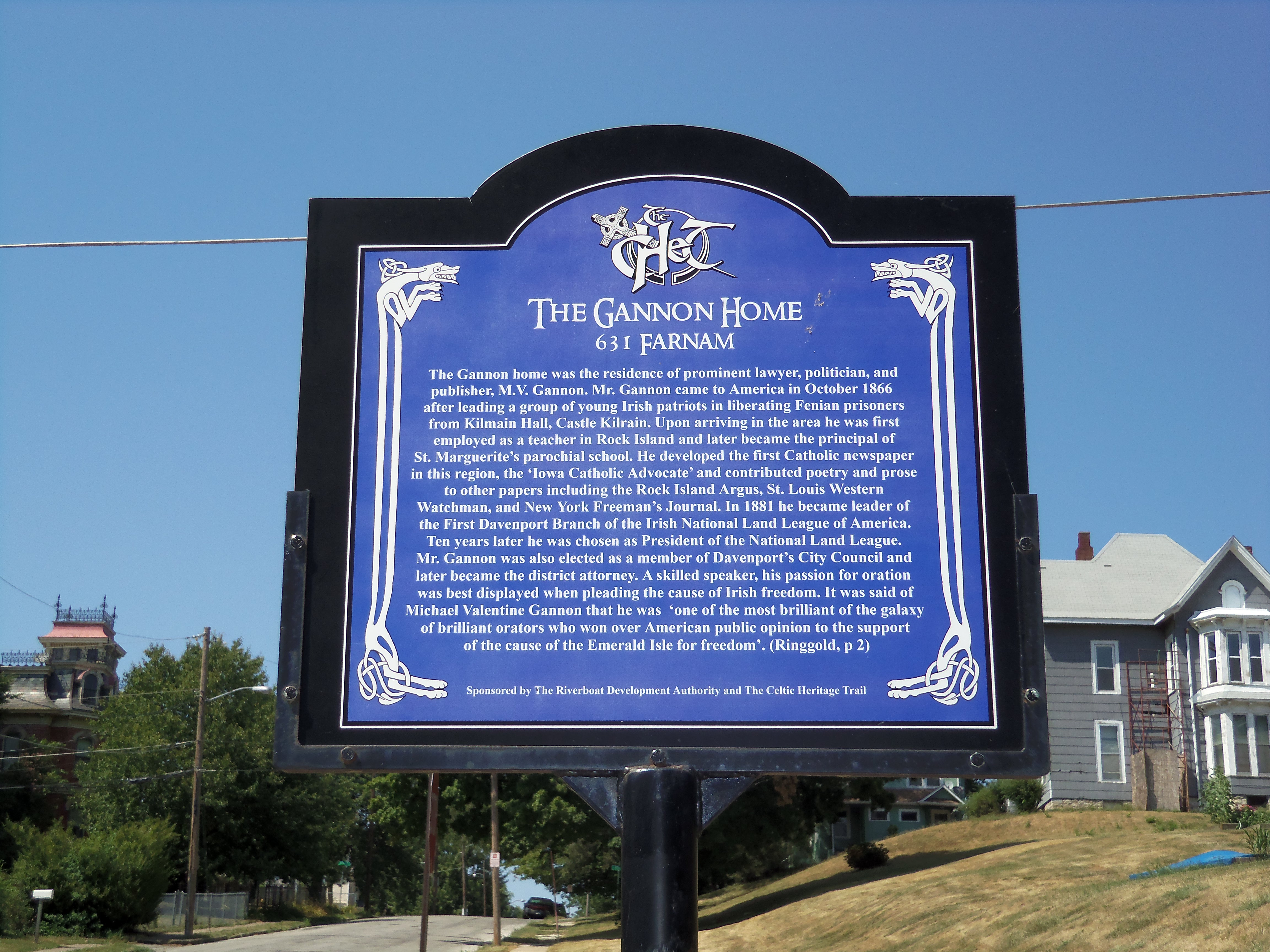 A sign for the M.V. Gannon House in Davenport, Iowa. The house, which has been torn down, was listed on the National Register of Historic Places.